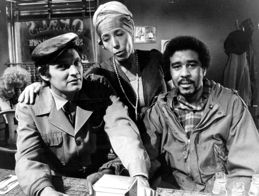 Publicity photo of Alan Alda, Lily Tomlin and Richard Pryor from Tomlin's 1973 CBS Television special, Lily.